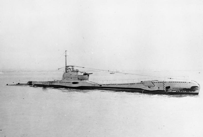 British T class submarine HMSM THISTLE underway at Spithead.